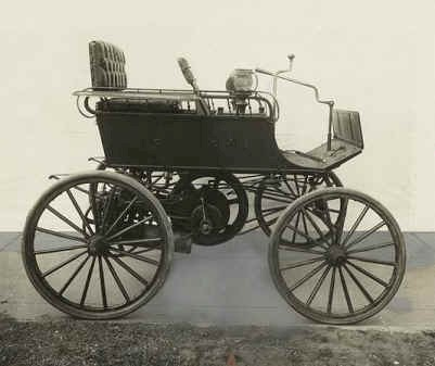 1897 Oldsmobile experimental gasolene Motor car. R.E. Olds built several cars with fuel, electric, and steam engines. Most were destroyed in a fire in 1901; this was one of them